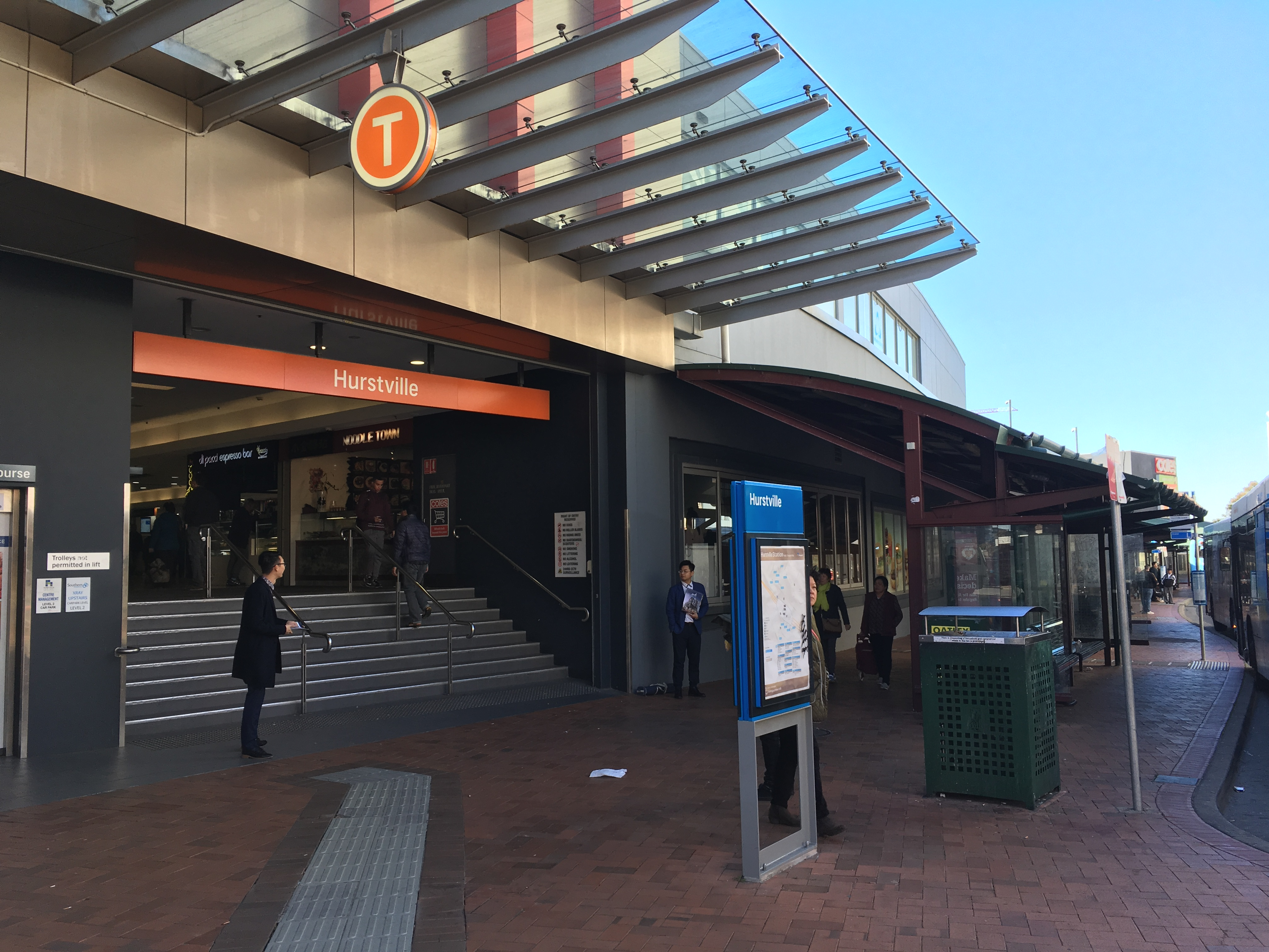 View of the entrance to the Hurstville Central shopping centre from Ormonde Parade, located in Hurstville, New South Wales. Depicted in the image is a major segment of the greater Hurstville Transport Interchange, indicated by the familiar Transport for New South Wales "hop"-style signage. The recognisable white-on-orange signage and "T" signpost indicating the presence of the Hurstville railway station inside, and the Sydney Trains services operating to and from the station. The blue signage indicates the bus stops, visible at the right of the entrance in these images, serviced by operators on the extensive bus network in Sydney.